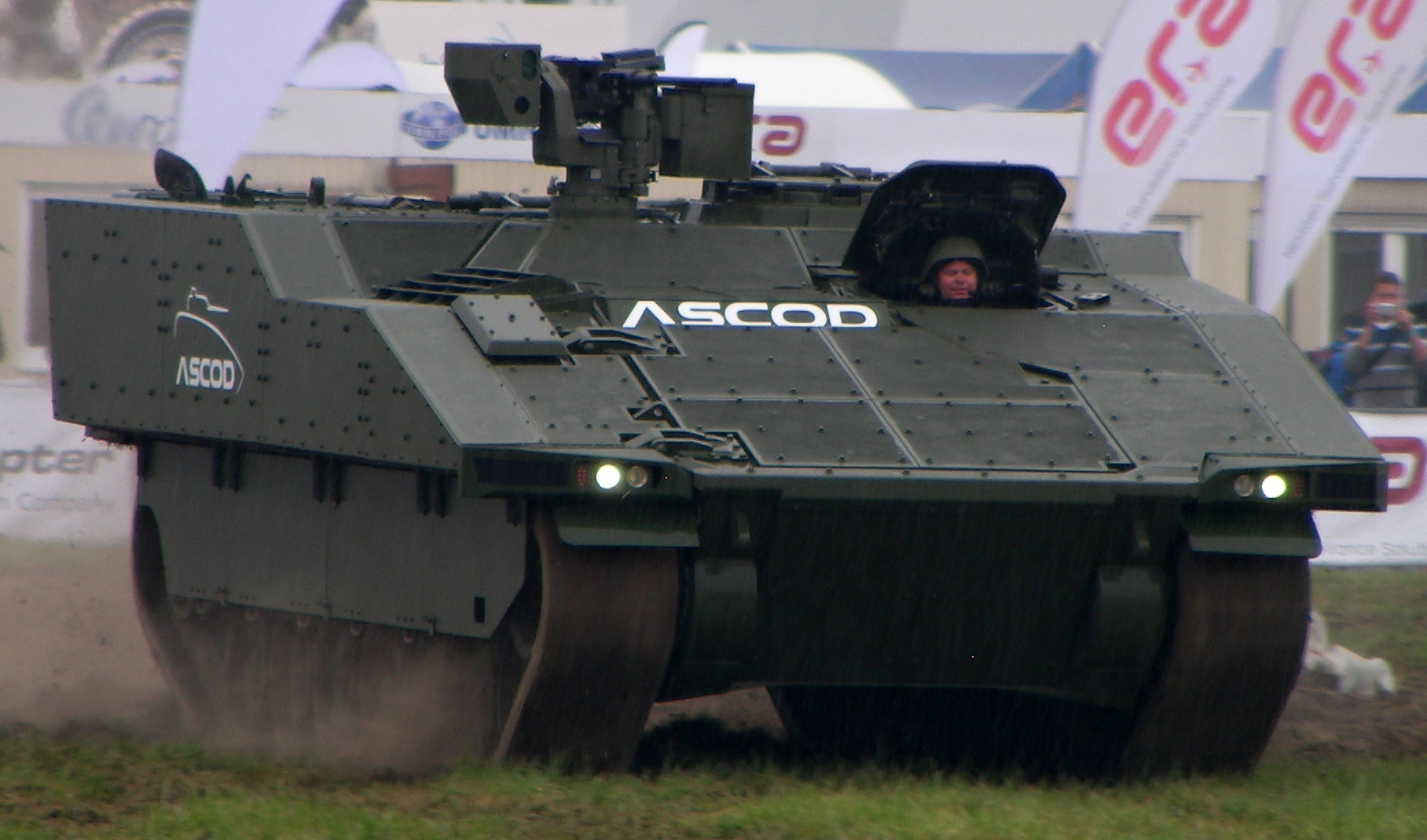 ASCOD Armoured fighting vehicle, NATO Days 2016, Ostrava Airport, Czech Republic.